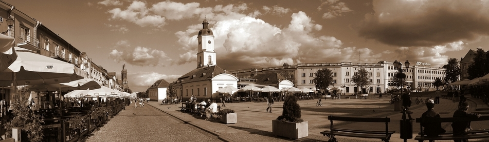 Białystok, Kościuszko Square